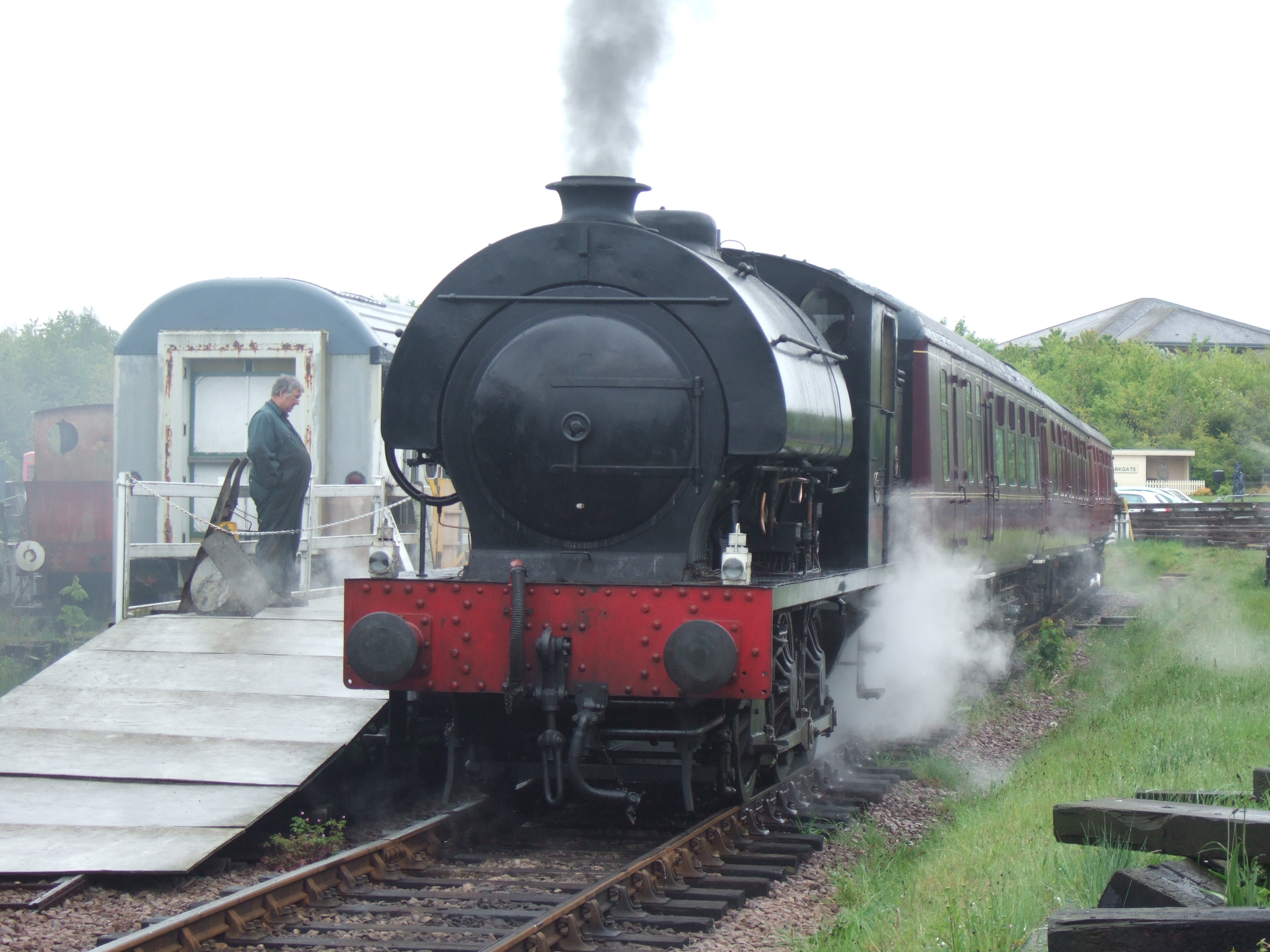 56 departing Rugginton